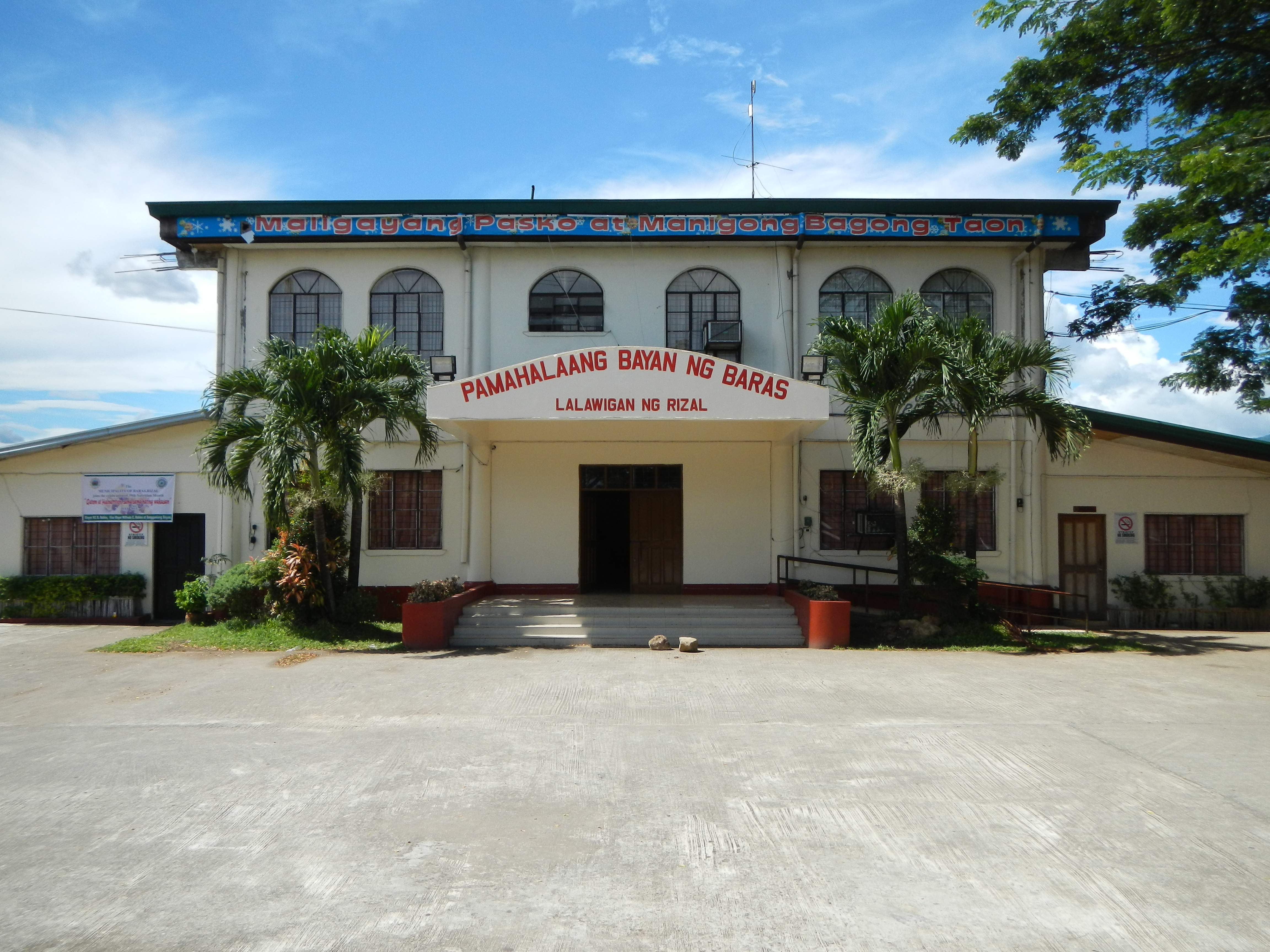 News Baras Municipal Hall - Baras, Rizal[1] -- located along the Highway, including the panorama of the Covered Court, the Police Station, Nursery, green house, Plaza and the scenery, the greens, grass fields surrounding the back of the Municipio ---is a first class municipality in the province of Rizal, Philippines. According to the latest census, it has a population of 32,609 people in 4,971 households. Baras is well known for its Church, Saint Joseph Parish, which has been the setting of different TV Programs, TV Commercials, Documentaries, Movies, etc. The current Parish Priest is Rev. Fr. Romarico V. Hilario. - Saint Joseph Parish School, etc. -- Coordinates: 14°31'20"N 121°15'59"Echool is the only Catholic School in the town. It offers a good quality education with high standard facilities. Baras town proper[2] Old Municipal Hall of Baras-Rizal[3] Abducted Rizal mayor surfaces May 10, 2004Organic farming is alive and well in Baras [4] [5] [6] [7] Baras Website